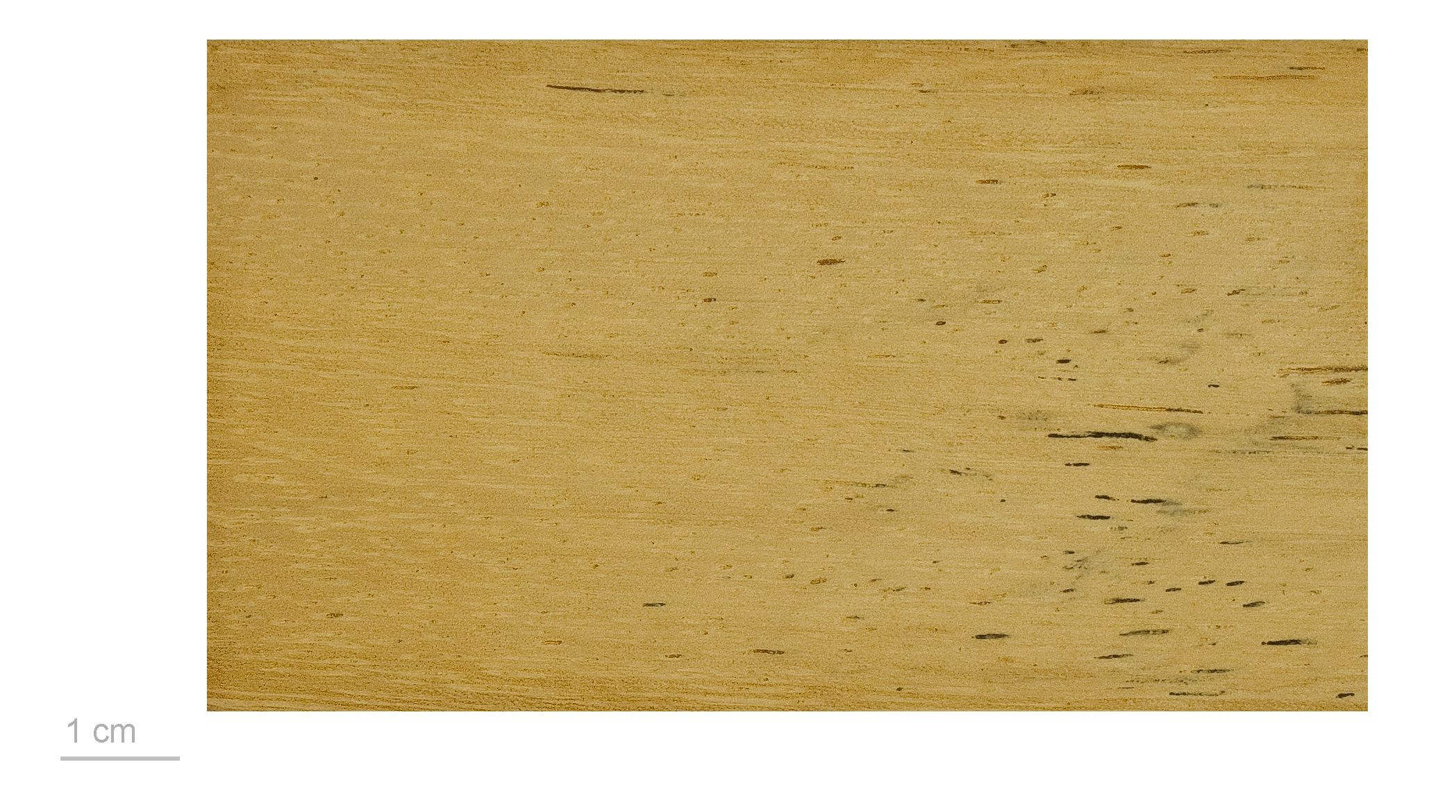 Kwata-kaman , wood